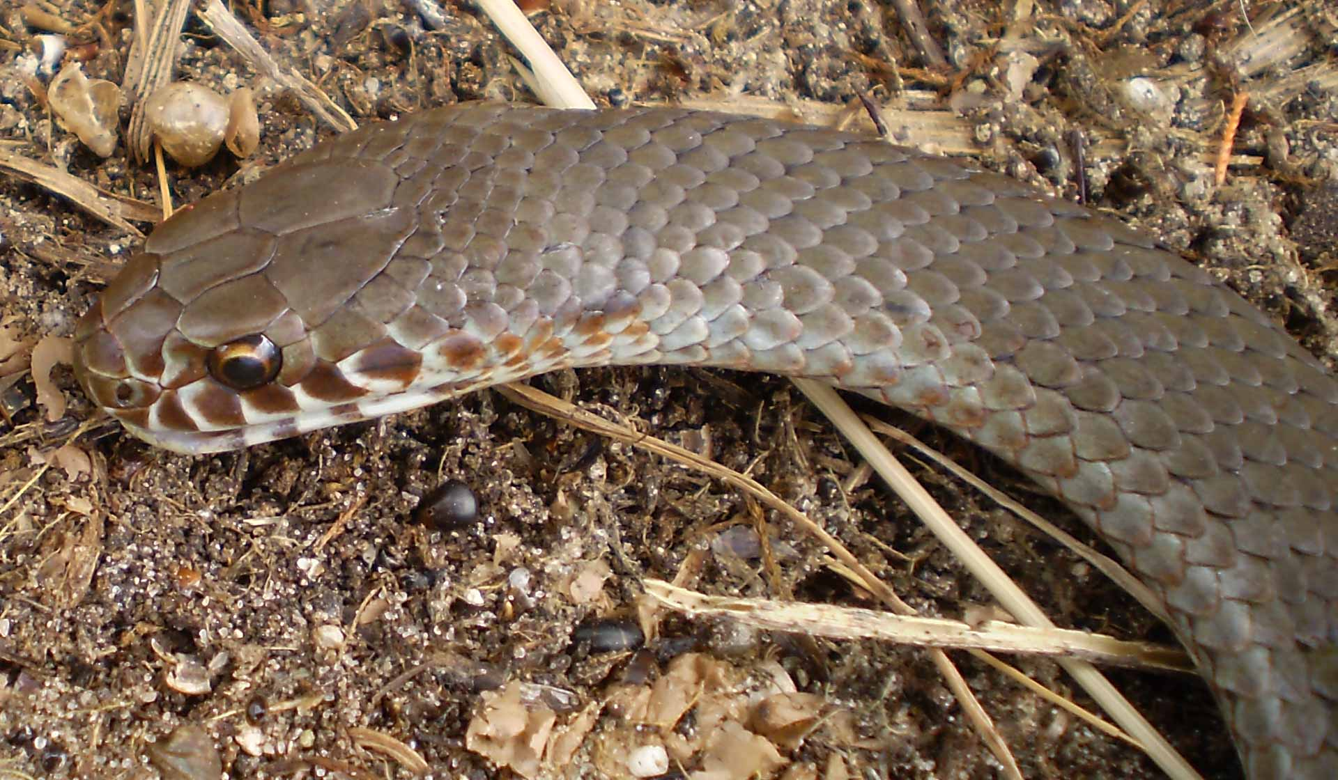 Head of Austrelaps labialis (pygmy copperhead) native to South Australia (state) particulary Kangaroo Island. Photo John Langsford